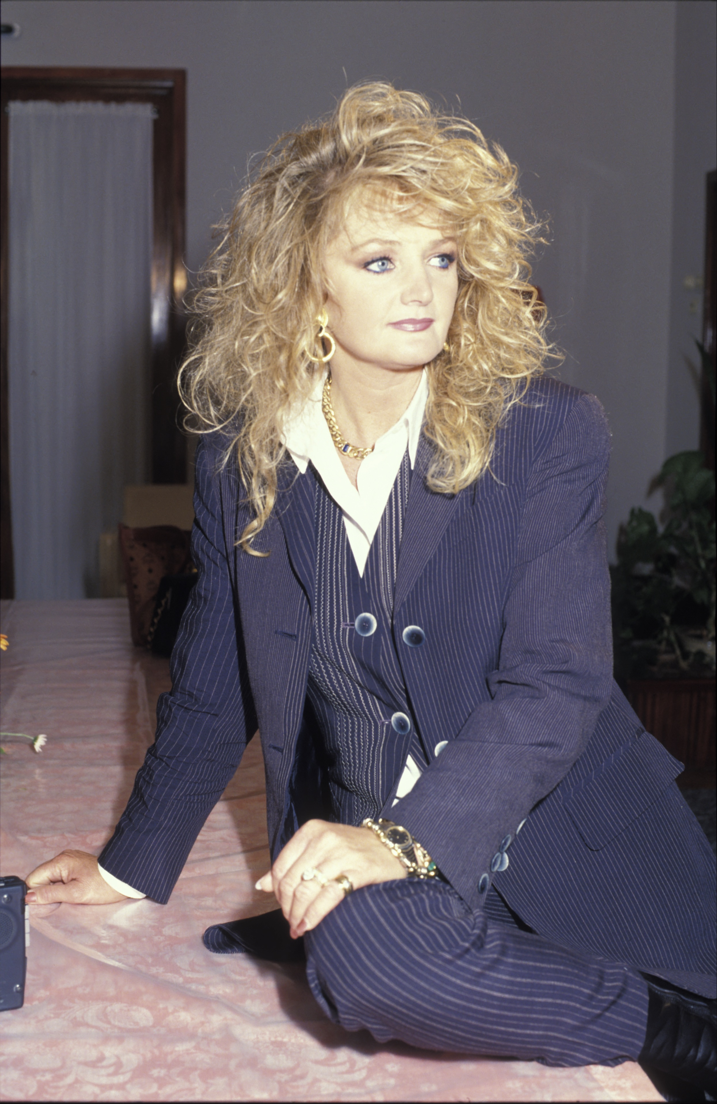 Bonnie Tyler in Moscow on the eve of a concert there.